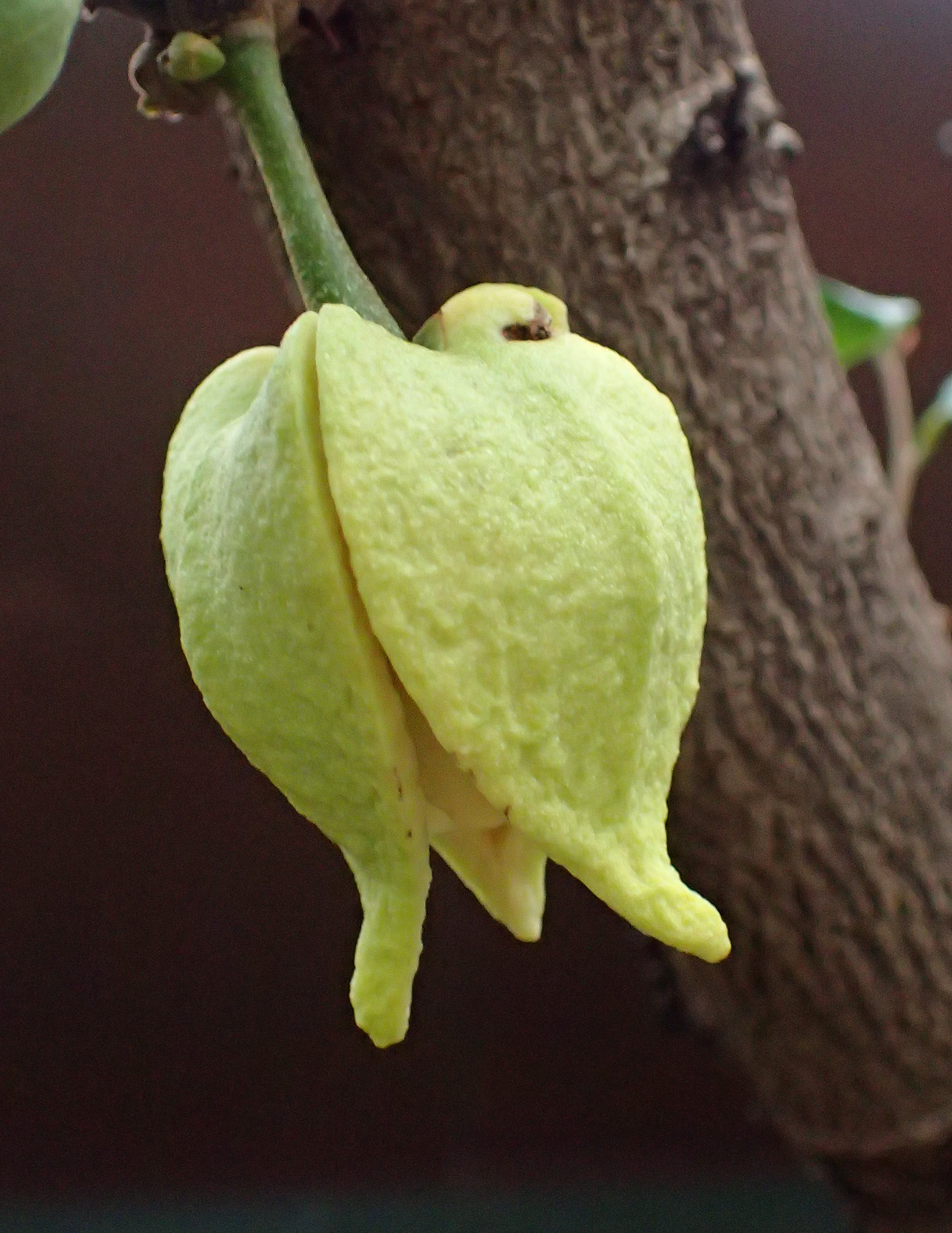 Annona muricata at Garfield Park Conservatory in Chicago